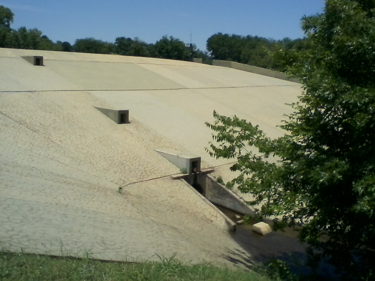 The face of Great Northern Dam, showing outlets that release impounded water gradually.